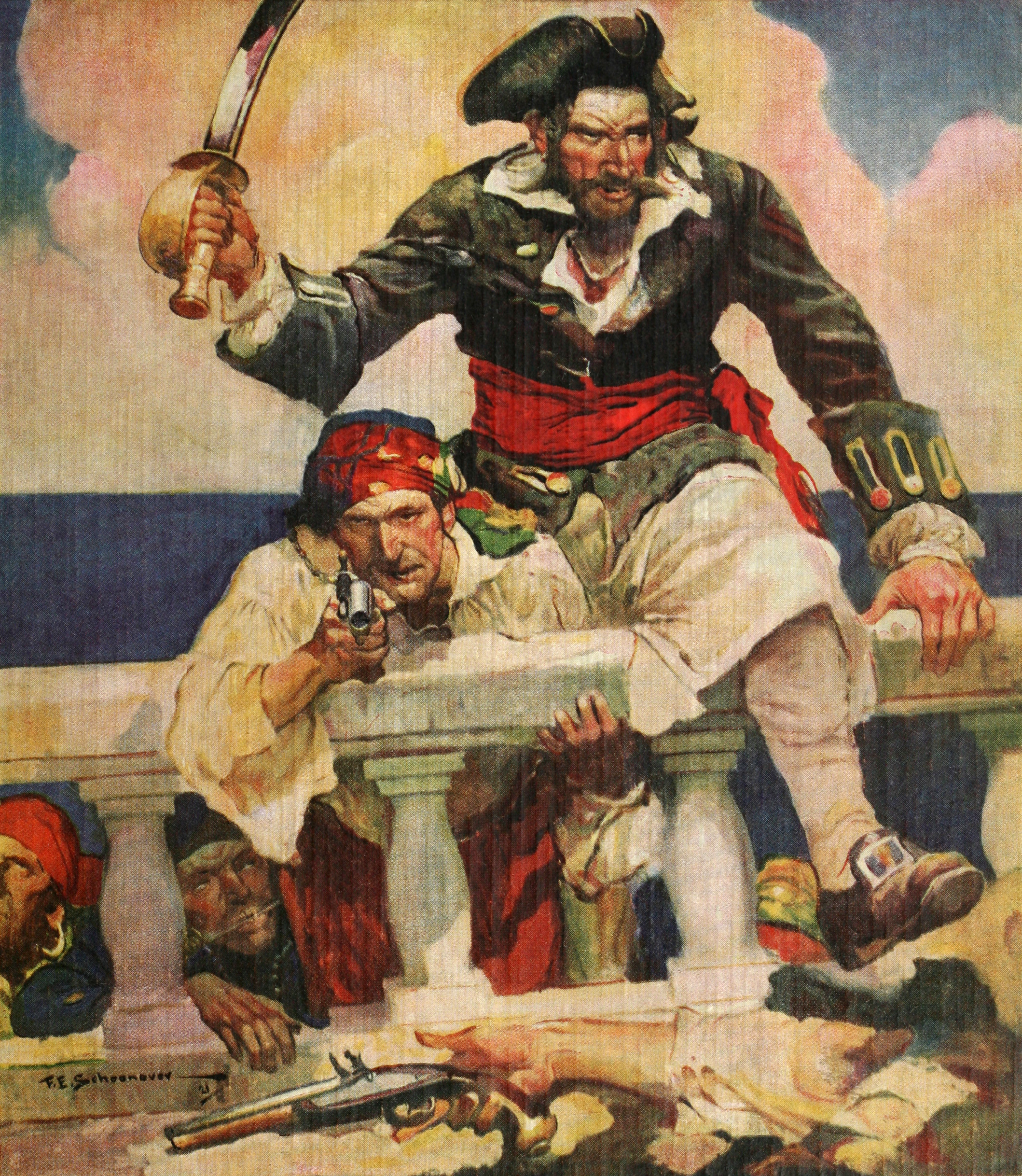 Cover of Blackbeard, Buccaneer: Blackbeard and his crew boards a ship